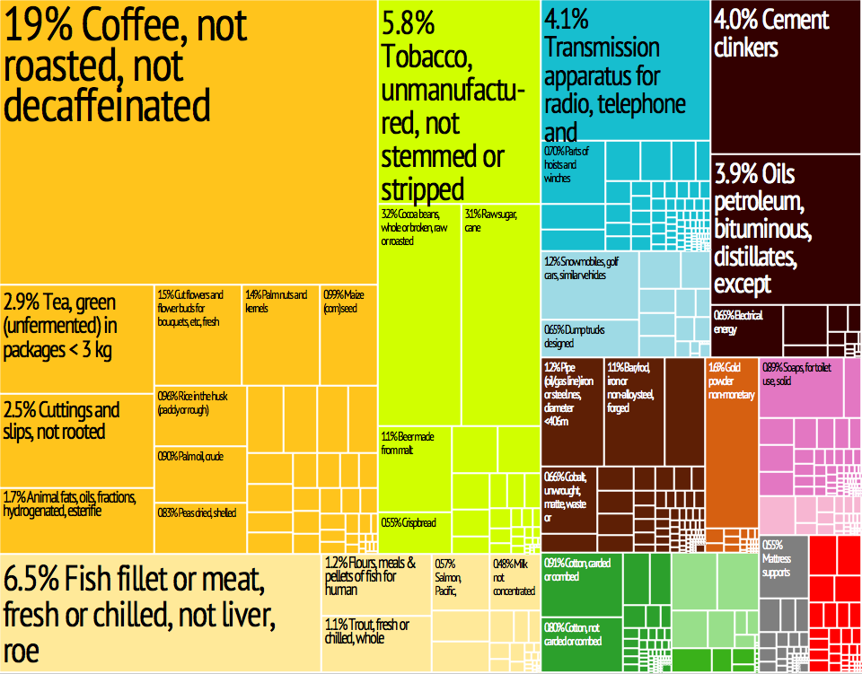 Uganda Export Treemap from MIT Harvard Economic Complexity Observatory